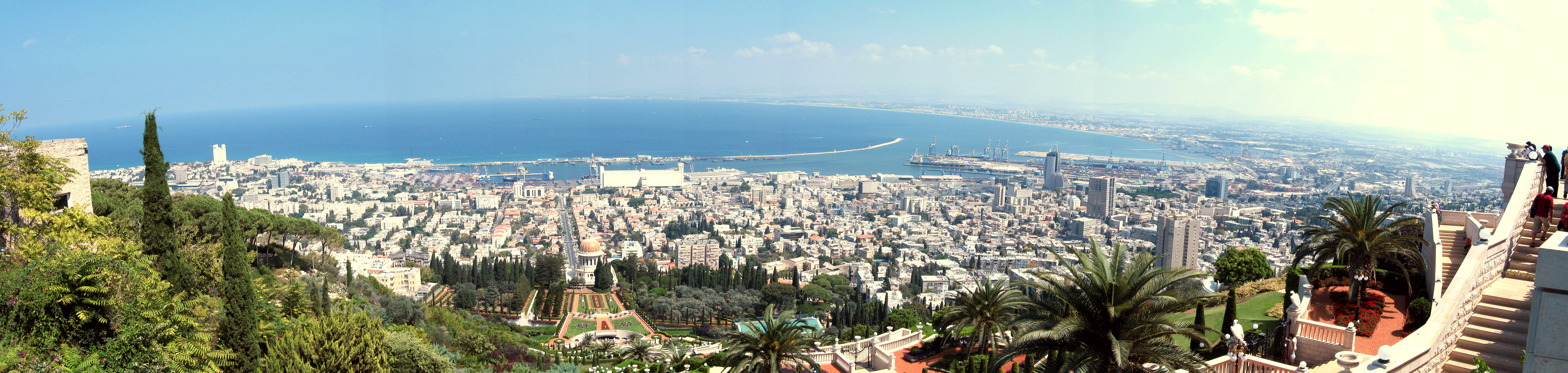 Panorama of Haifa (view from the Mount Carmel)